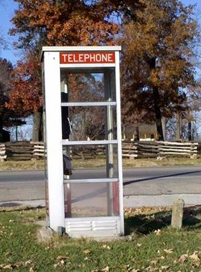 Phone Booth installed in Prairie Grove in in the 1950s, the only phone booth on the National Registry of Historical Places.